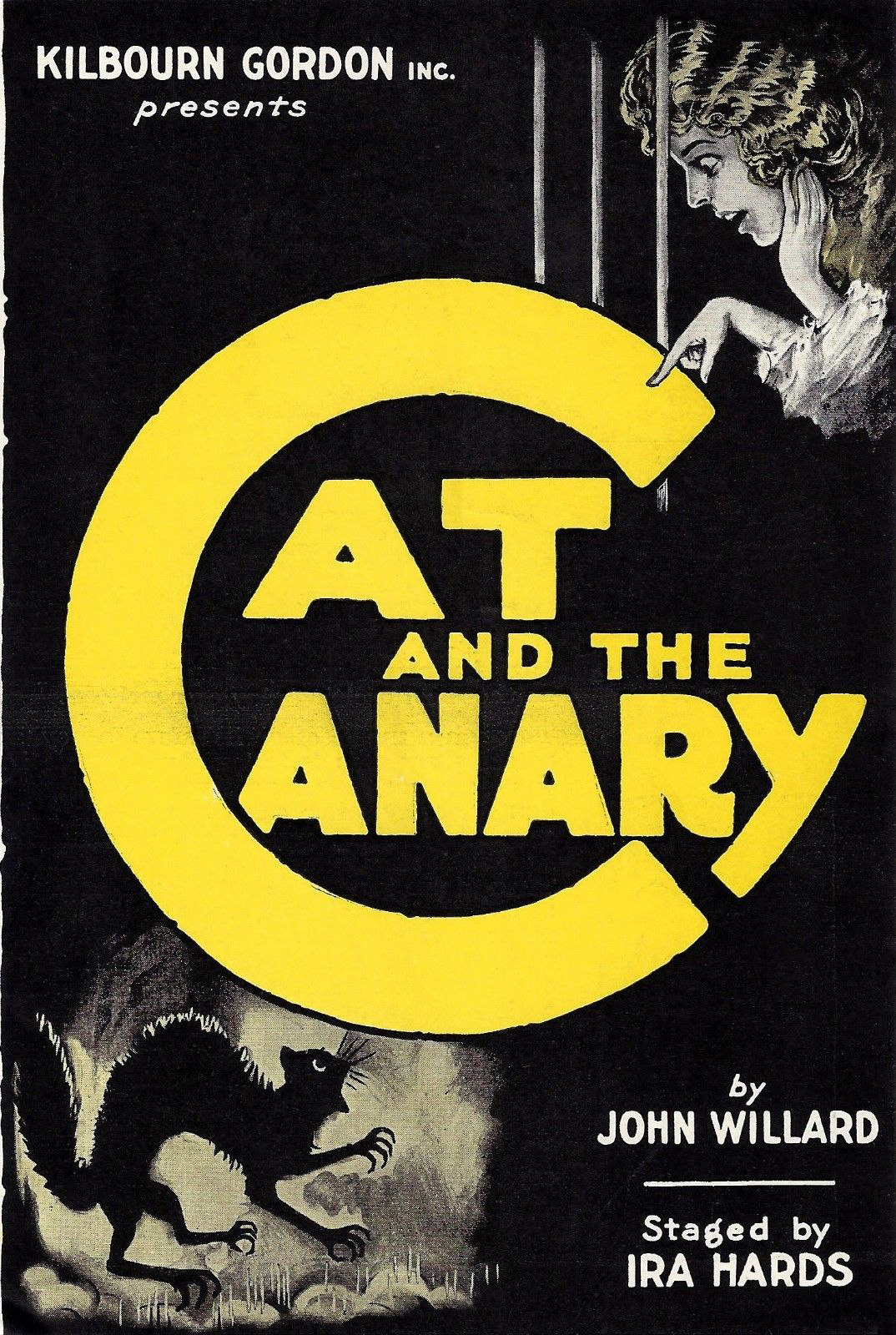 Front cover of a four-page advertising flyer for the 1922 Broadway play The Cat and the Canary